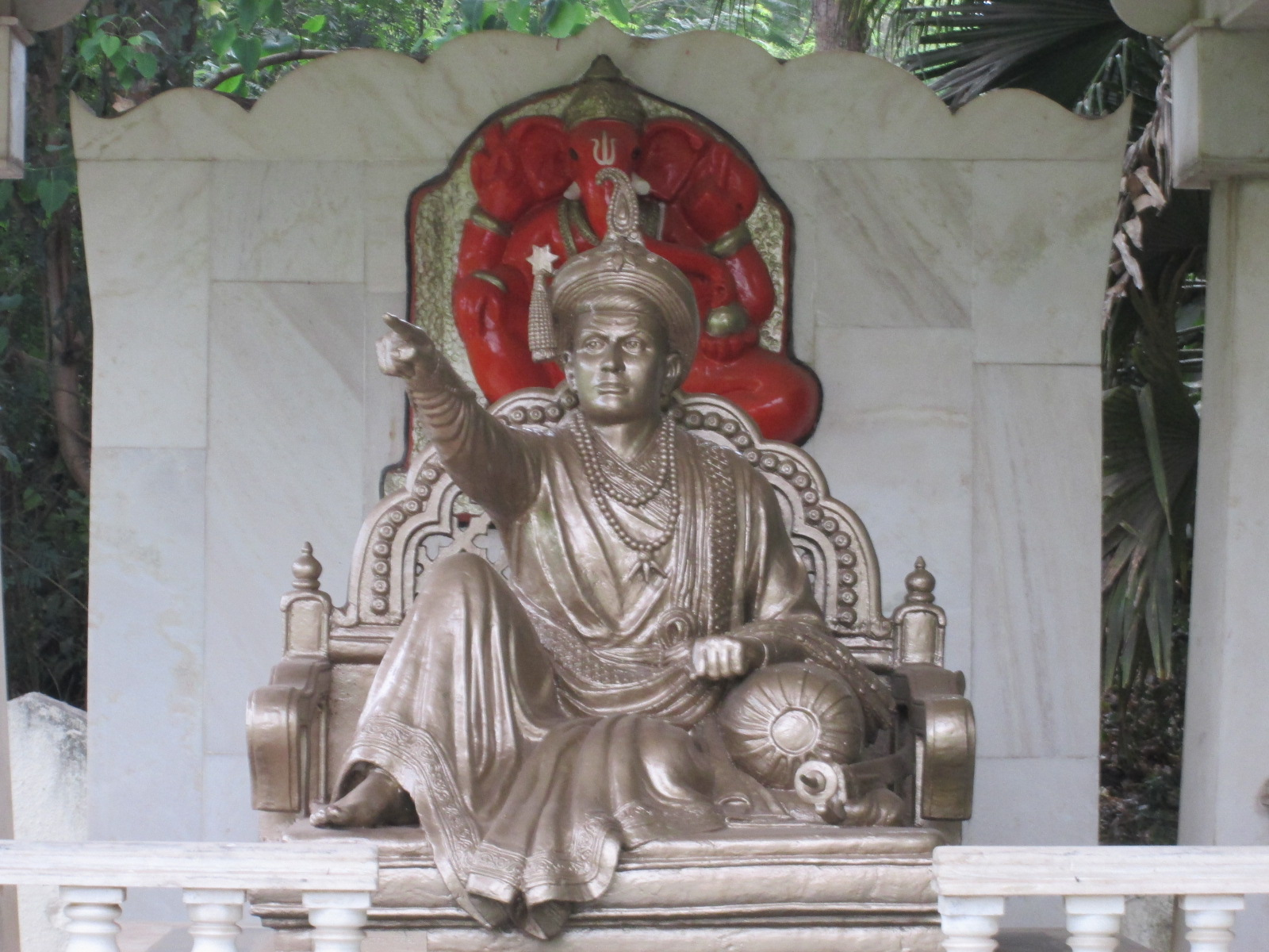 A statue of His Royal Highness Pradhanpant Shrimant Madhavrao Peshwa, the Peshwa of Maratha India. A memorial commemorating H.H. Shrimant Madhavrao Ballal Peshwa is located at Peshwe Park in Pune, India